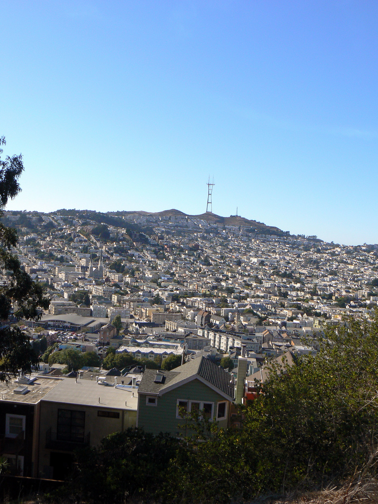 Bernal Heights, San Francisco, California